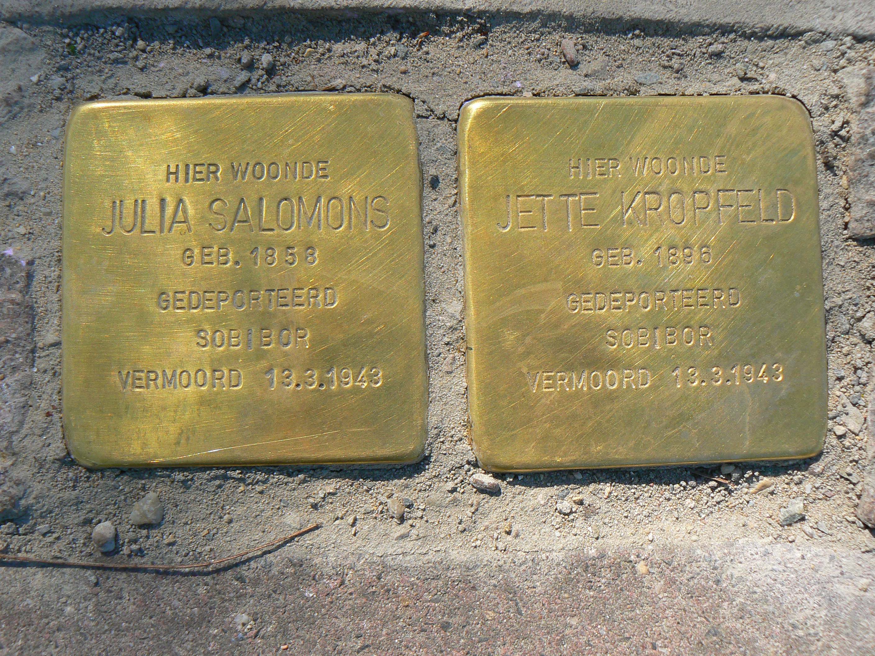 Stolperstein in Emmen/The Netherlands on April 19th: Roswinkelerkanaal ZZ in Roswinkel